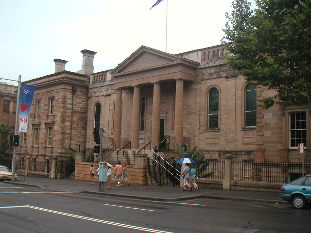 The "Big School" building of :Sydney Grammar School in New South Wales, Australia.